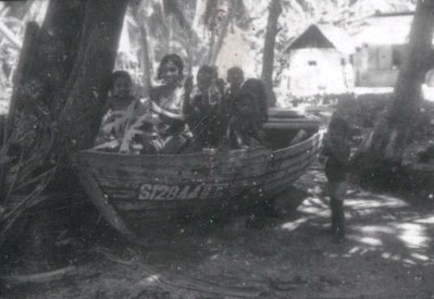 Children playing on a Bokkura. A Maldivian oar-powered dinghy. Funaado; Fua Mulaku